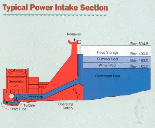 Cross-section schematic of J. Percy Priest dam on the Stones River in Davidson County near Nashville, Tennessee, USA. The schematic shows the pool levels for the various stages of water storage.